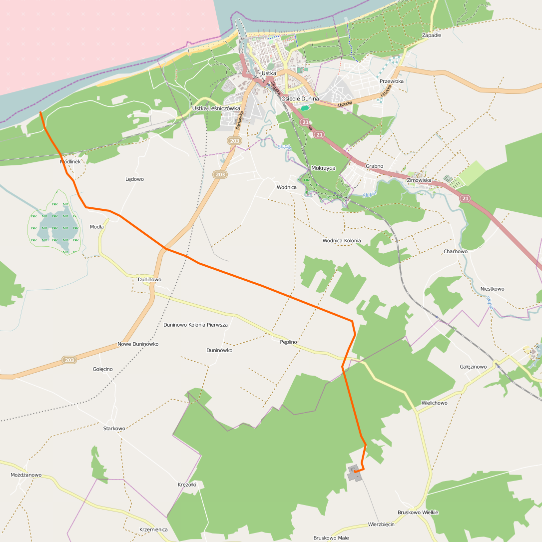 Track of underground cable of HVDC SwePol in Poland made with Openstreetmap-Data. Please correct, if required!